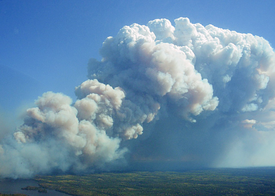 Smoke column on the Pagami Creek Fire in the Boundary Waters Canoe Area Wilderness, Minnesota, USA.